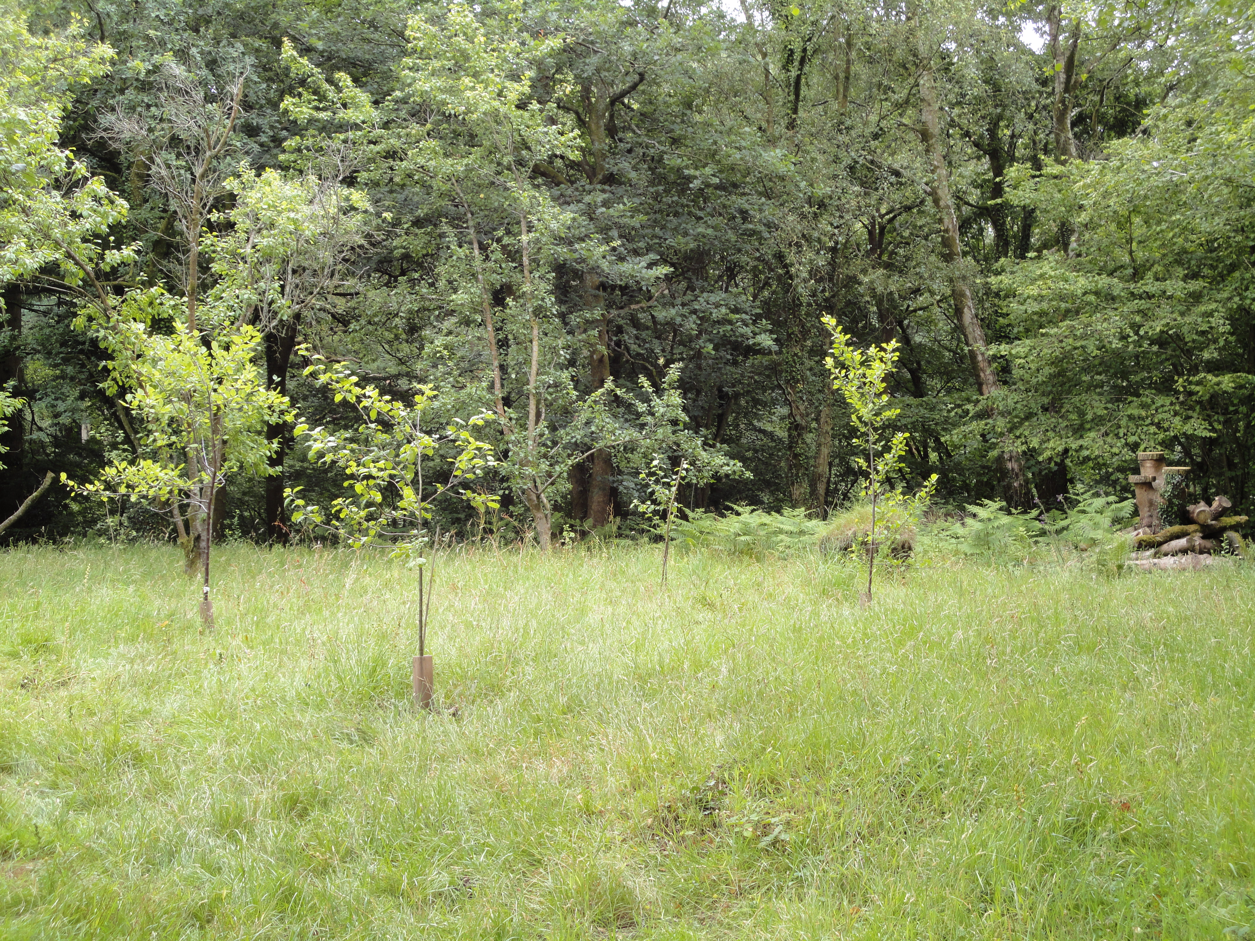 Bryngarw Country Park, Orchard 2011